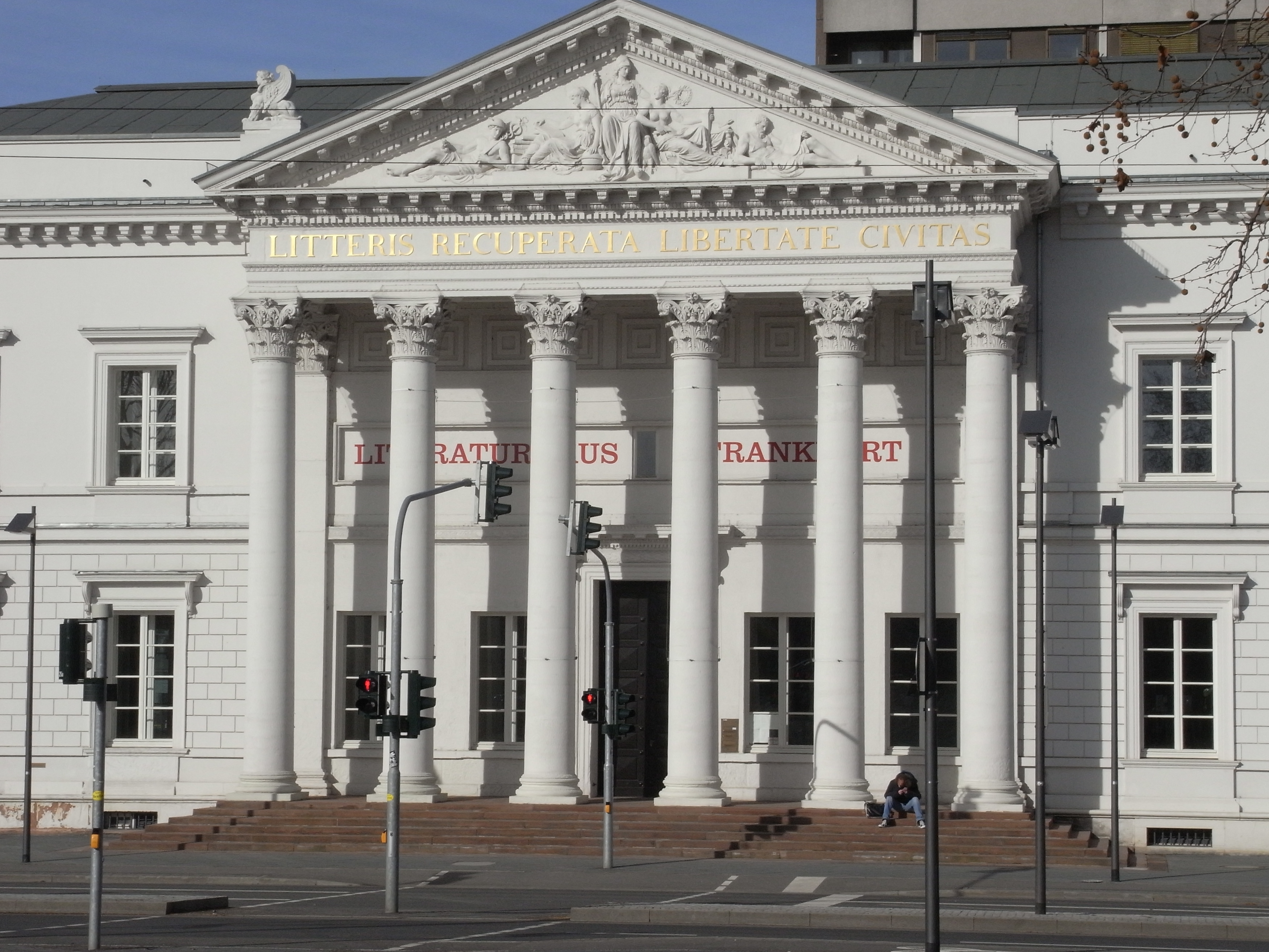 Building at Main river with Latin inscription LITTERIS RECUPERATA LIBERTATE CIVITAS ([from]the community to science after having recuperated liberty)